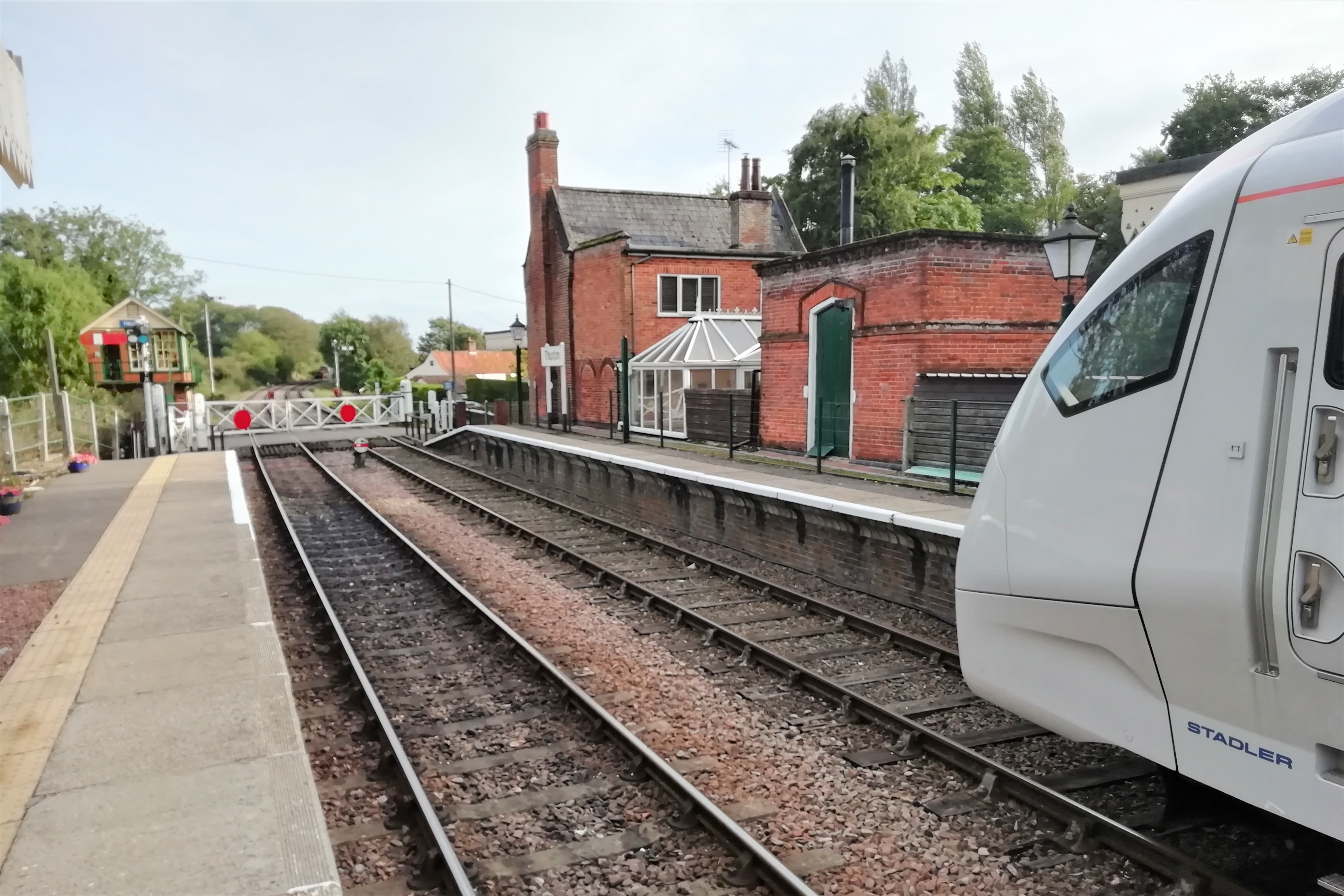 Stadler FLIRT unit in the down platform at Thuxton station.